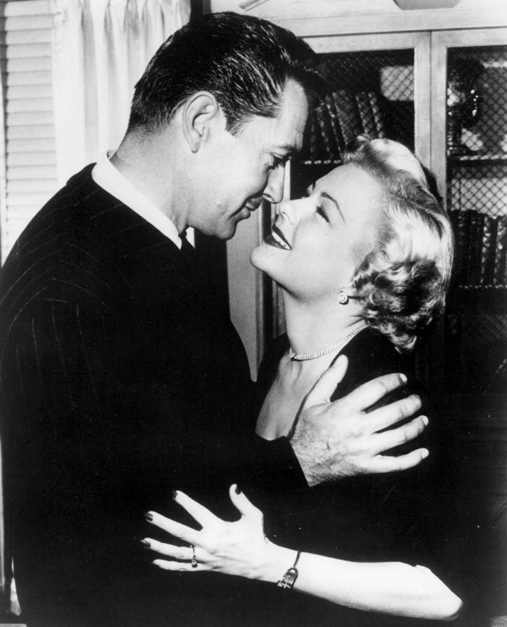 Photo of Kent Taylor and Marjorie Reynolds in "A Case of Marriage" presented on The Bigelow Theatre. This was an anthology series similar to Playhouse 90 and the like.